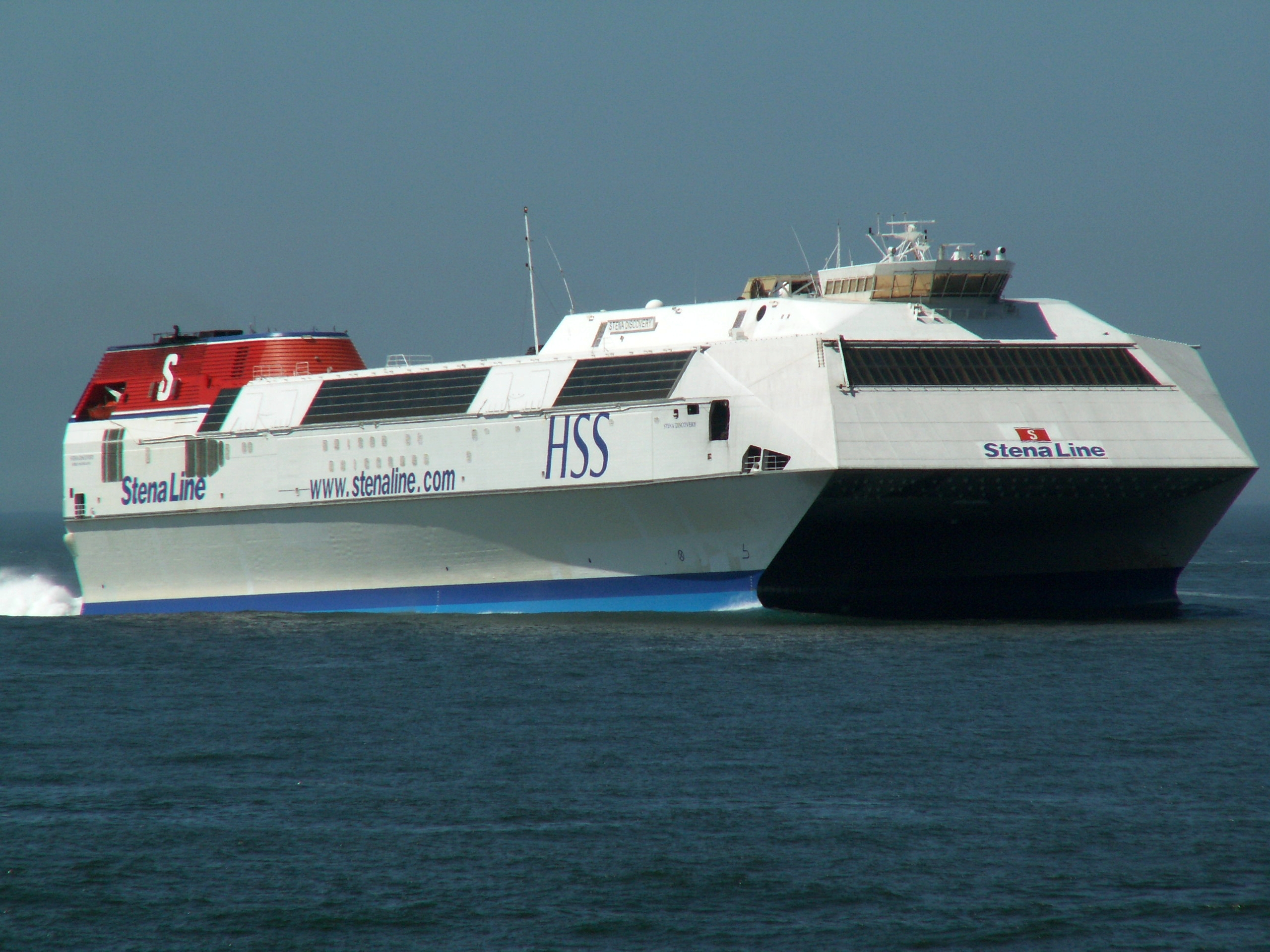 Stena Discovery approaching Port of Rotterdam, Holland.